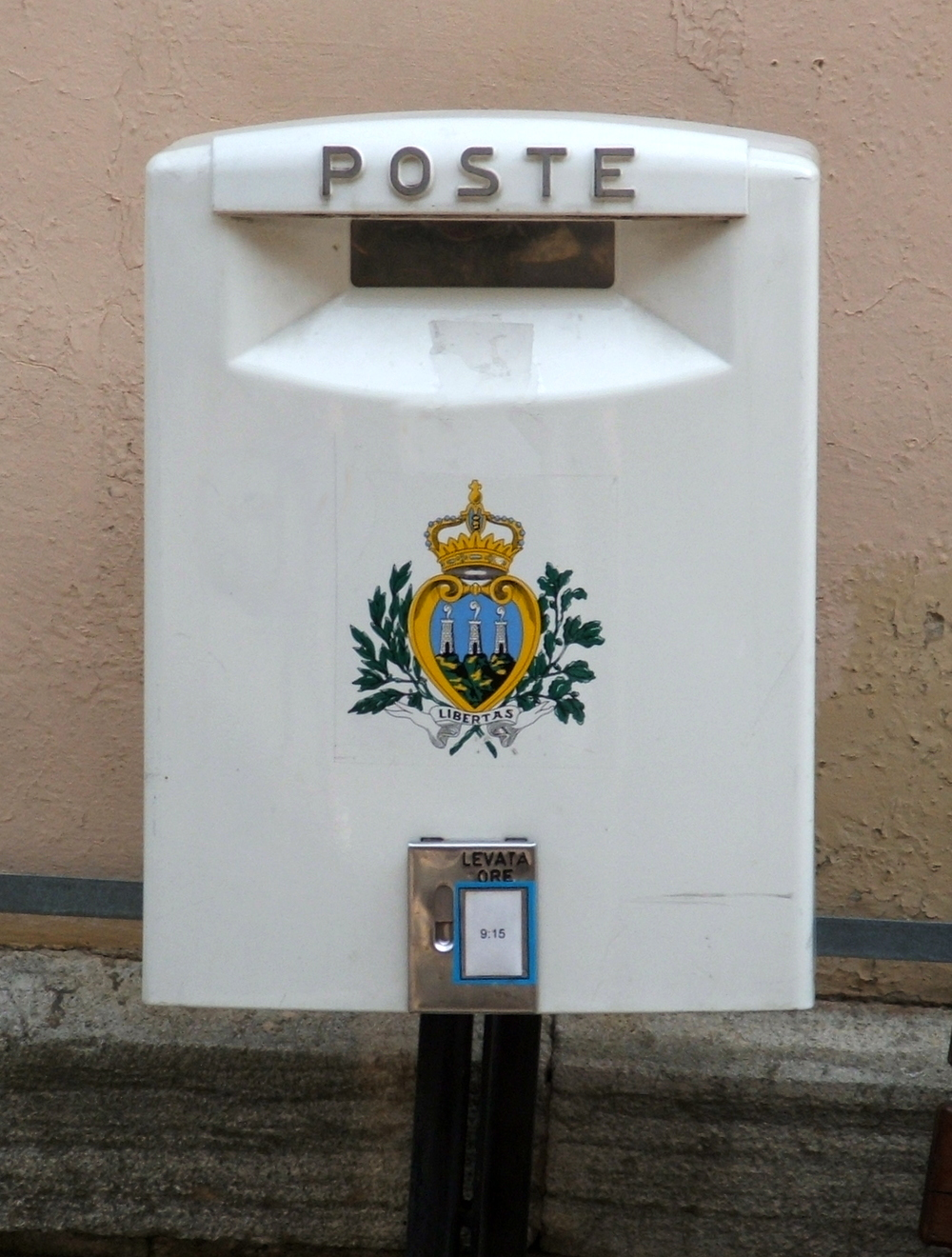 Mailbox in San Marino